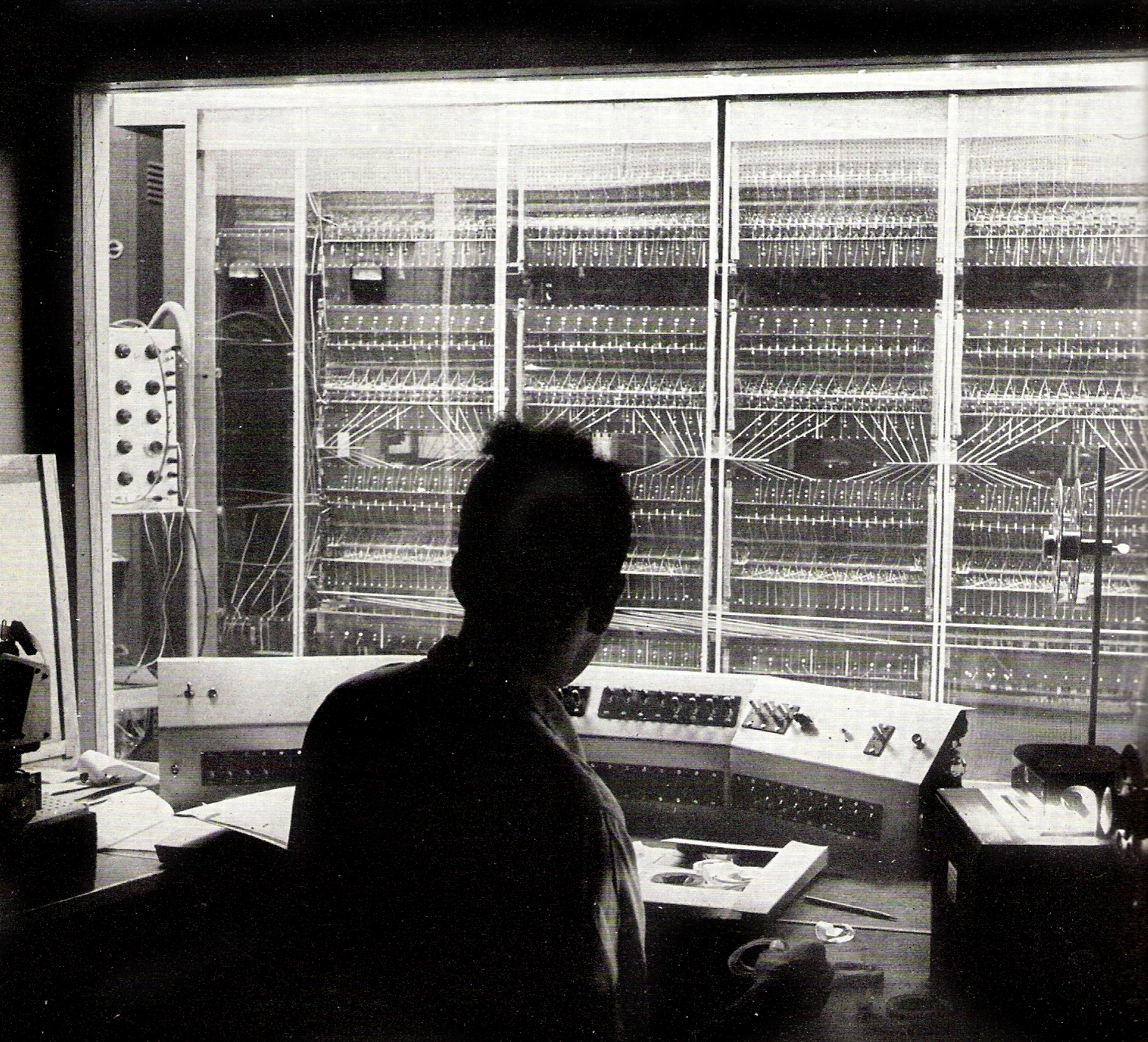 Weizmann Automatic Calculator at Weizmann Institute, Israel, in the 1950's